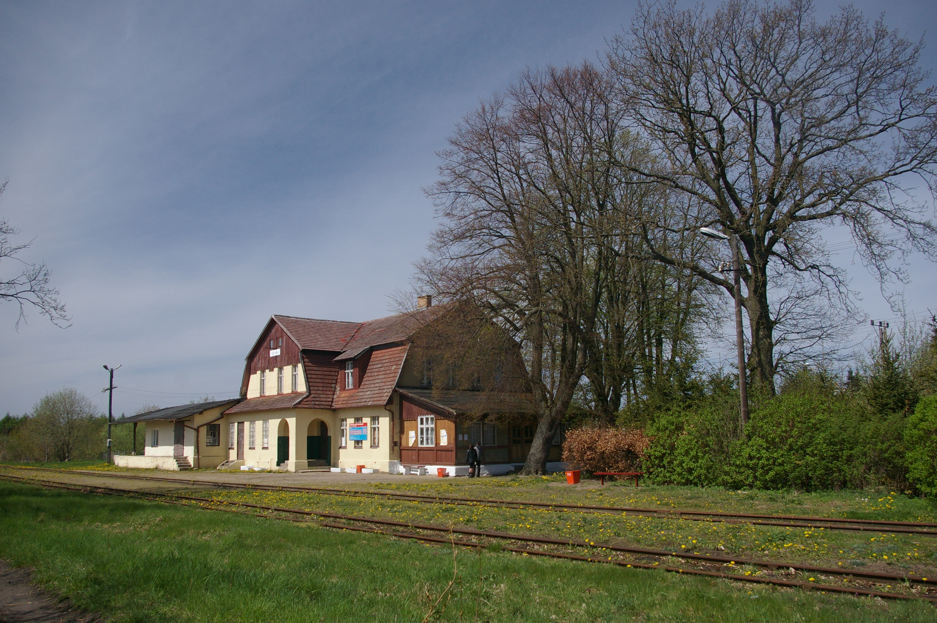 Narrow gauge railway station in Rewal, Poland